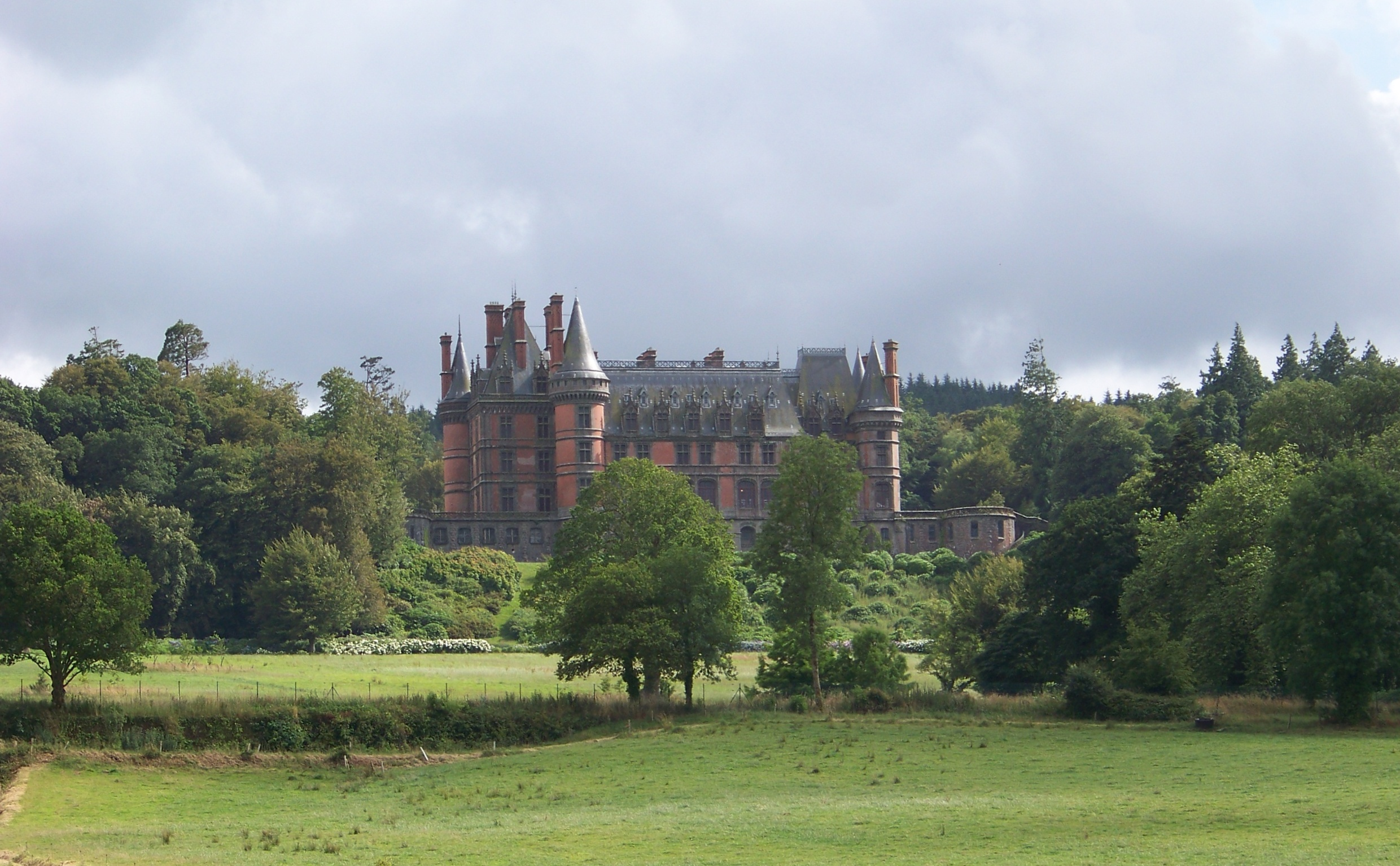 Trevarez Castle, Sant Wazeg, Finistère, Brittany .